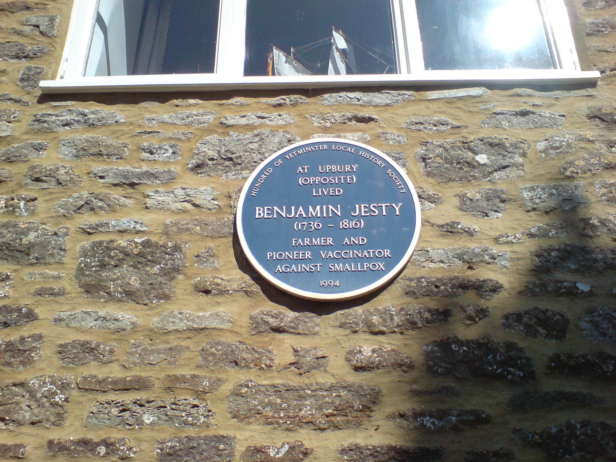 Blue plaque commemorating Benjamin Jesty's pioneering work at Upbury Farm, Yetminster This image represents an Open Plaques entry #41755.